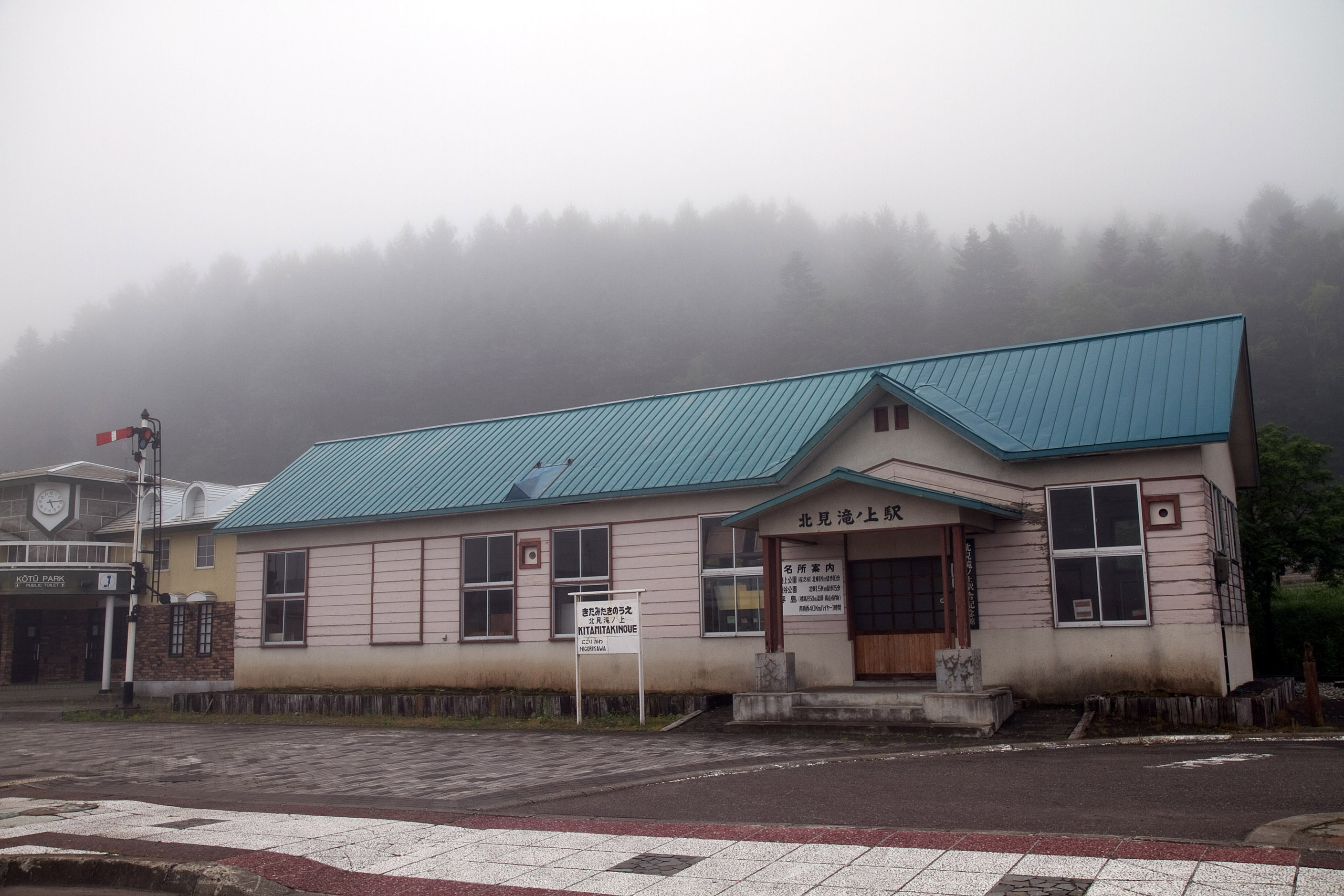 Kitami-Takinoue station building